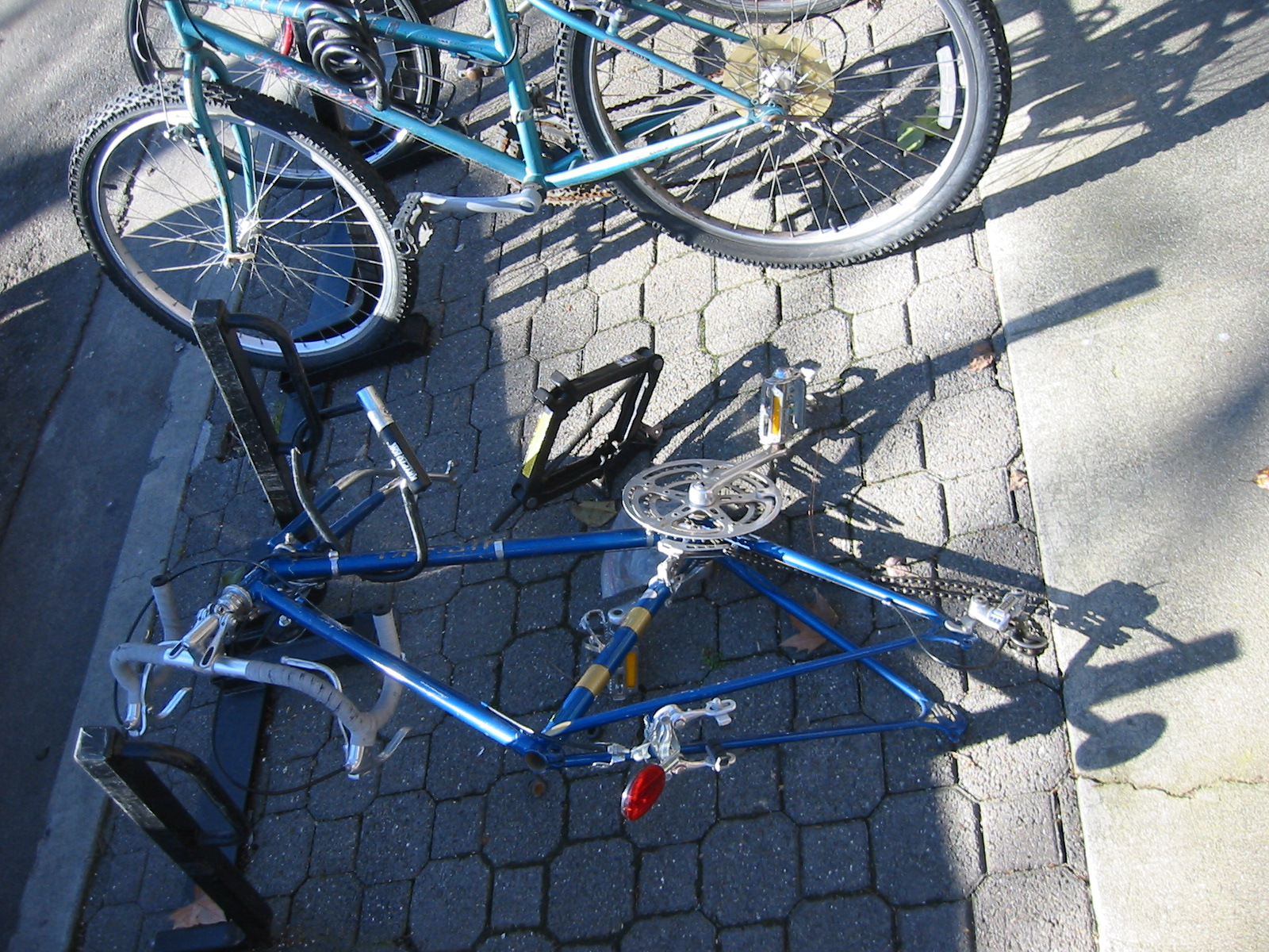 A bicycle U-lock that was almost cracked by a car jack. The picture was taken at the intersection of A St. and 3rd St. in Davis, CA, close to the campus of UC Davis.